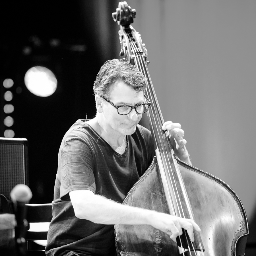 John Patitucci with Chick Corea's Akoustic Band in Kongsberg Musikkteater. The concert was part of Kongsberg Jazzfestival and took place on 06. July 2018 in Kongsberg. Lineup:Chick Corea (piano)John Patitucci (double bass)Dave Weckl (drums)Marius Neset (saxophone)